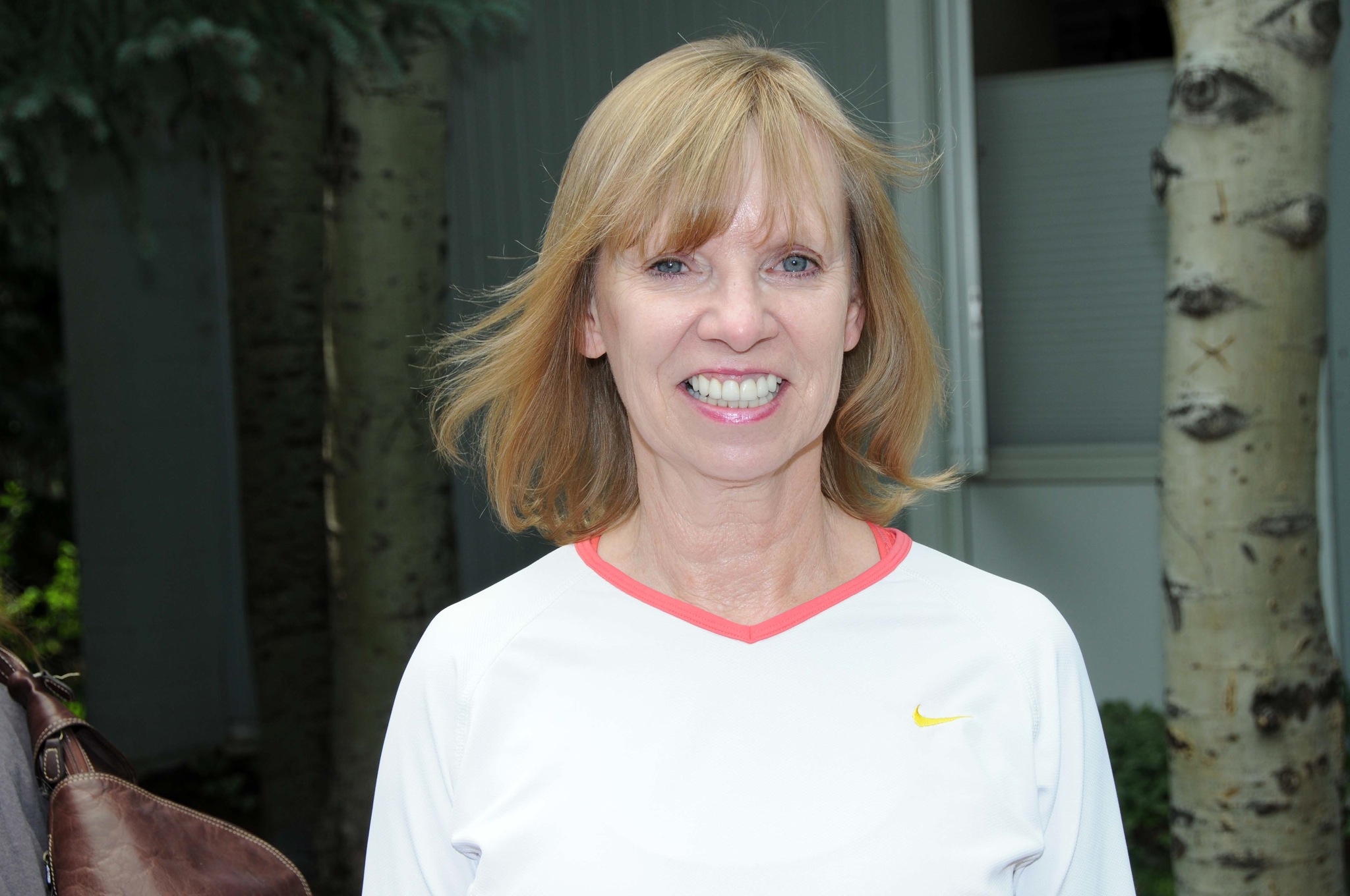 Ann Winblad, principal of the Hummer-Winblad venture capital firm.